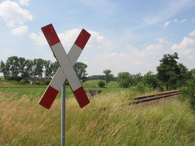 Closed railway „Brandenburgische Städtebahn“ nearby Preußnitz. In the background the periglacial arroyo „Steile Kieten“, typical in landscape Fläming (called: „Rummel“). The village Preußnitz is a part of the village Kuhlowitz, an incorporated part of the town Belzig in Brandenburg, Germany.